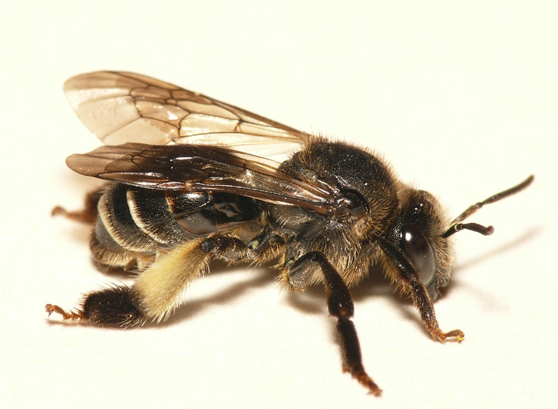 Macropis europaea, female. Location: Rhenen - Blauwe Kamer (The Netherlands)